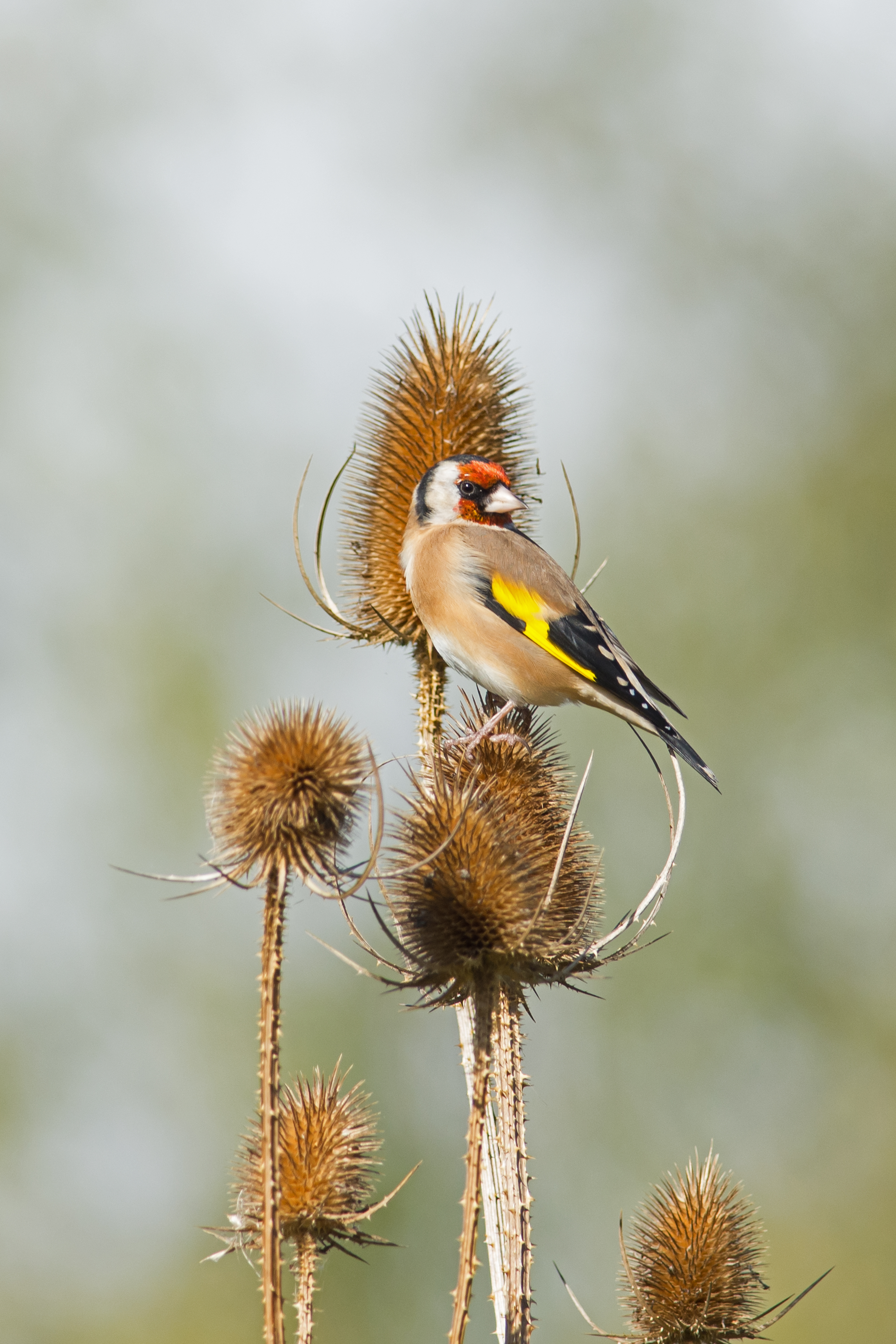 Goldfinch